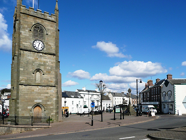 The town centre with the clock tower - Coleford, Gloucestershire.